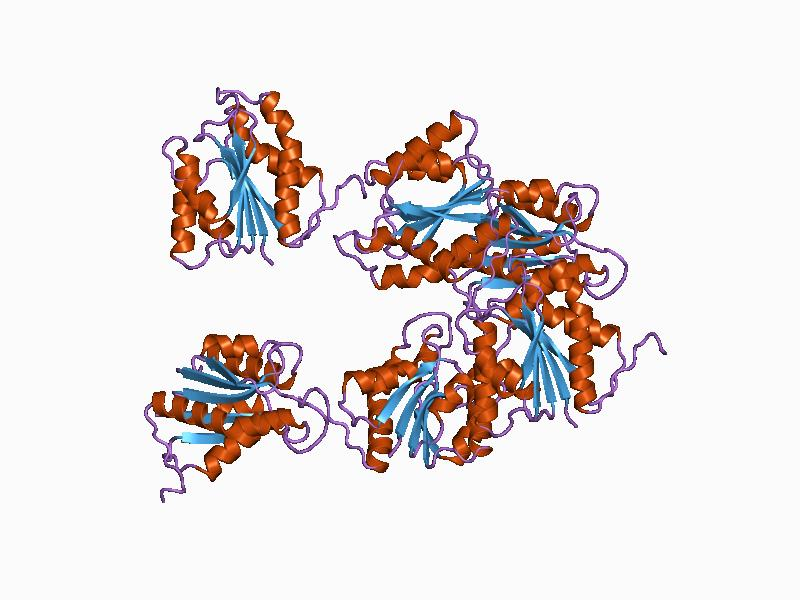 Cartoon representation of the molecular structure of protein registered with 1cfz code.